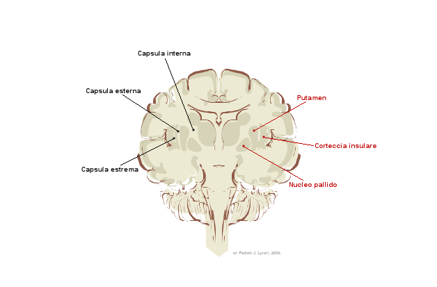 Human brain coronal section with tags